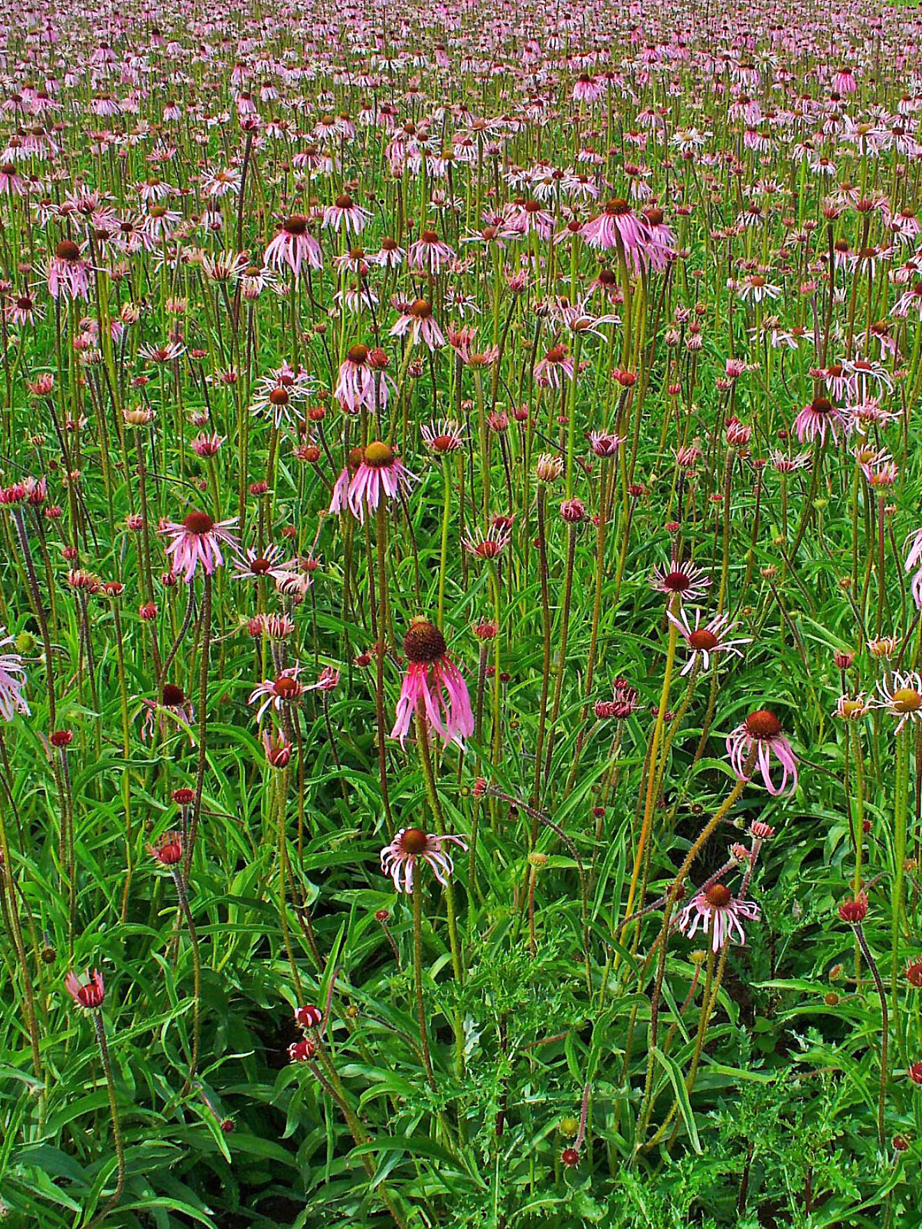 Echinacea pallida, Asteraceae, Pale Purple Cone-flower, habitus. The plant is used in homeopathy as remedy: Echinacea (Echi.)